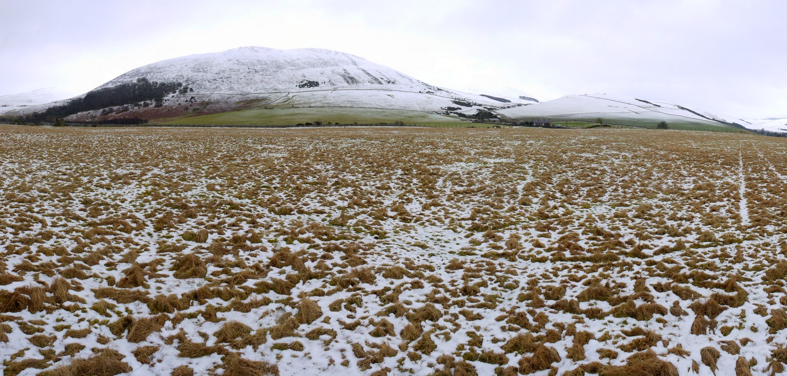 Ad Gefrin or Yeavering. Although little is visible on the ground, this field below Yeavering Bell is the site of Ad Gefrin 411317, an Anglo-Saxon Royal Palace from the C7th. This site was found from elaborate crop-marks visible in an aerial photograph, taken in the exceptionally dry summer of 1949. The archaeologist, Brian Hope-Taylor, considered that it might be the long lost remains of Ad Gefrin, an Anglo-Saxon palace mentioned in Bede's 'Ecclesiastical History of the English People' completed in 731AD. In 1952, Hope-Taylor made preparations to excavate the site and managed to prevent extension of the sand and gravel quarry that threatened its destruction. Details about the site can be found here For 100 years the field presided over some of the most momentous events in northern English history. It was the scene of widespread conversion to Christianity by Bishop Paulinus from Italy who carried out baptisms in the River Glen, just north of the site. It was the temporary home to Kings and Queens, Aefelfrith, Edwin and Aethelburgh, Oswald and his brother, Oswy. It was attacked and destroyed twice by British Kings Cadwallon and the Mercian Penda. By the end of the C7th it fell into decline and its physical traces above ground were lost.